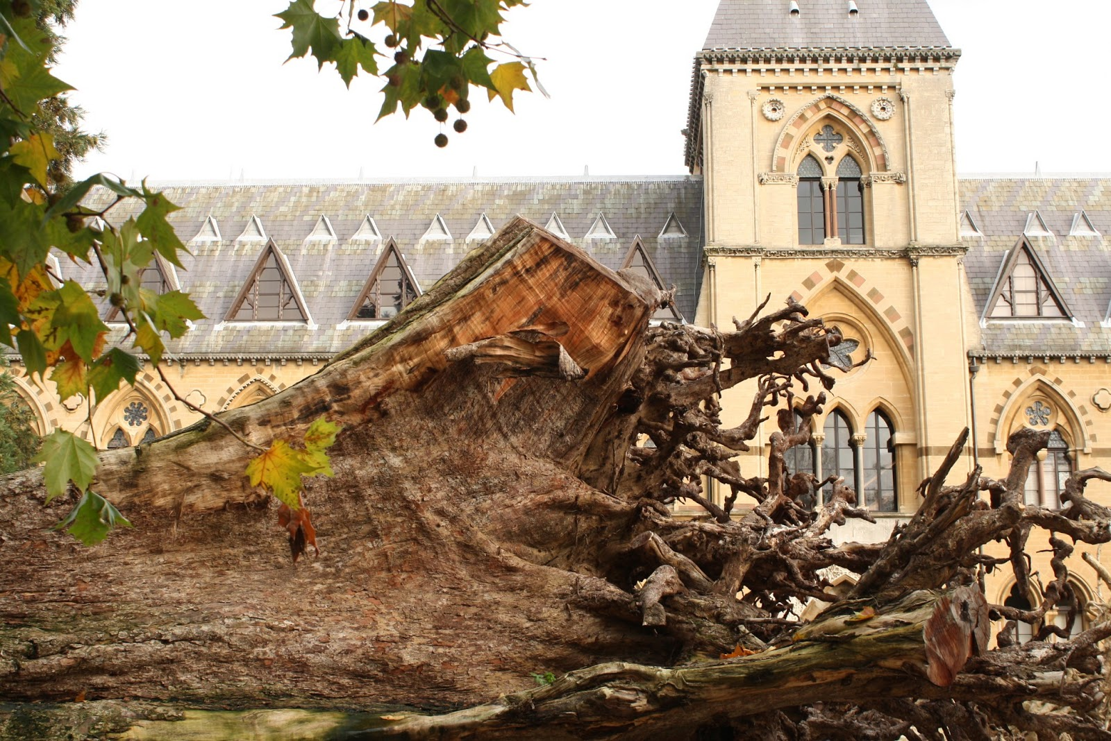 The Oxford University Museum of Natural History, foregrounded by the 'Ghost Forest' installation (Angela Palmer), March 2011